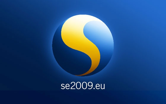 Logo of the Swedish Presidency of the European Union in 2009